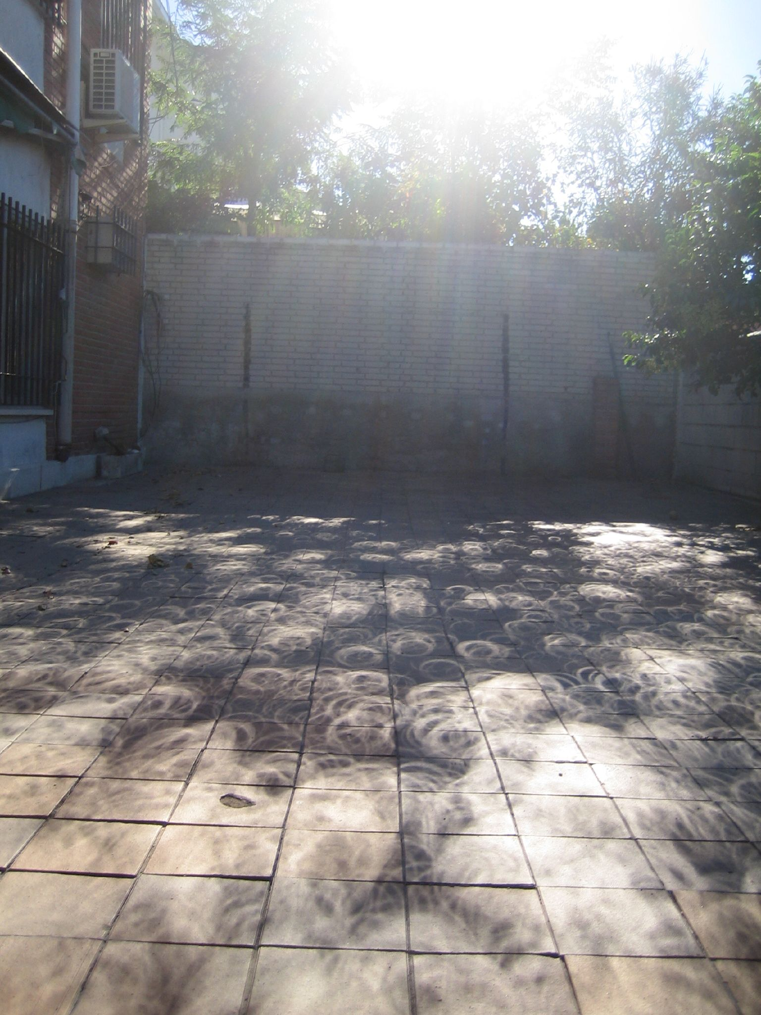 eclipse and pin-hole